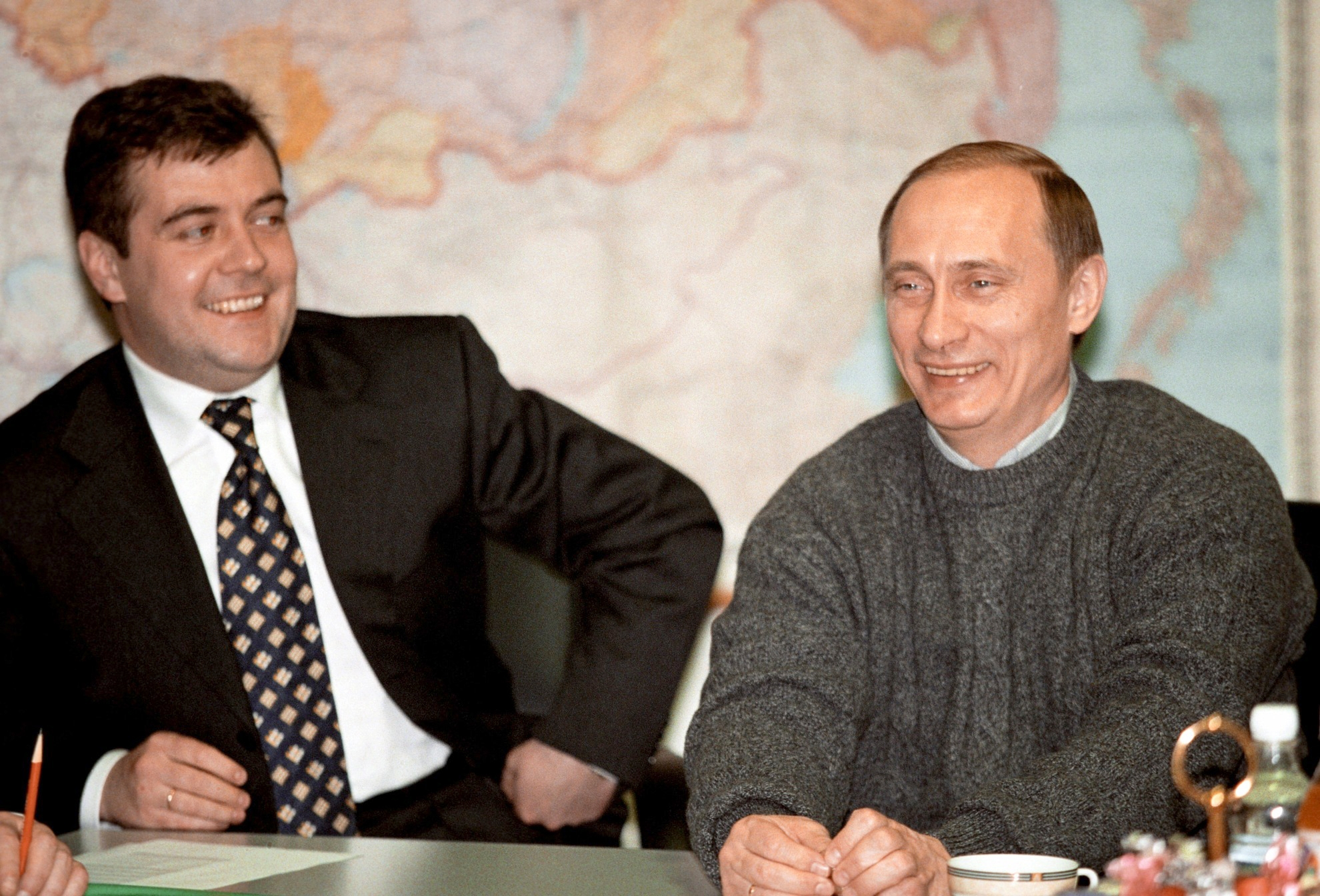 MOSCOW. News conference at the campaign headquarters on the night after the voting in the Russian presidential election with Dmitry Medvedev, Vladimir Putin's campaign manager.